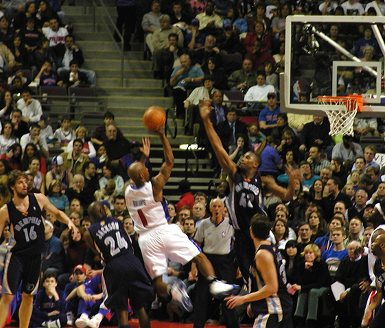 Chauncey Billups of the Detroit Pistons attempts a shot over Lorenzen Wright of the Memphis Grizzlies. This file has been extracted from another file: Billups vs Memphis Grizzlies.jpg